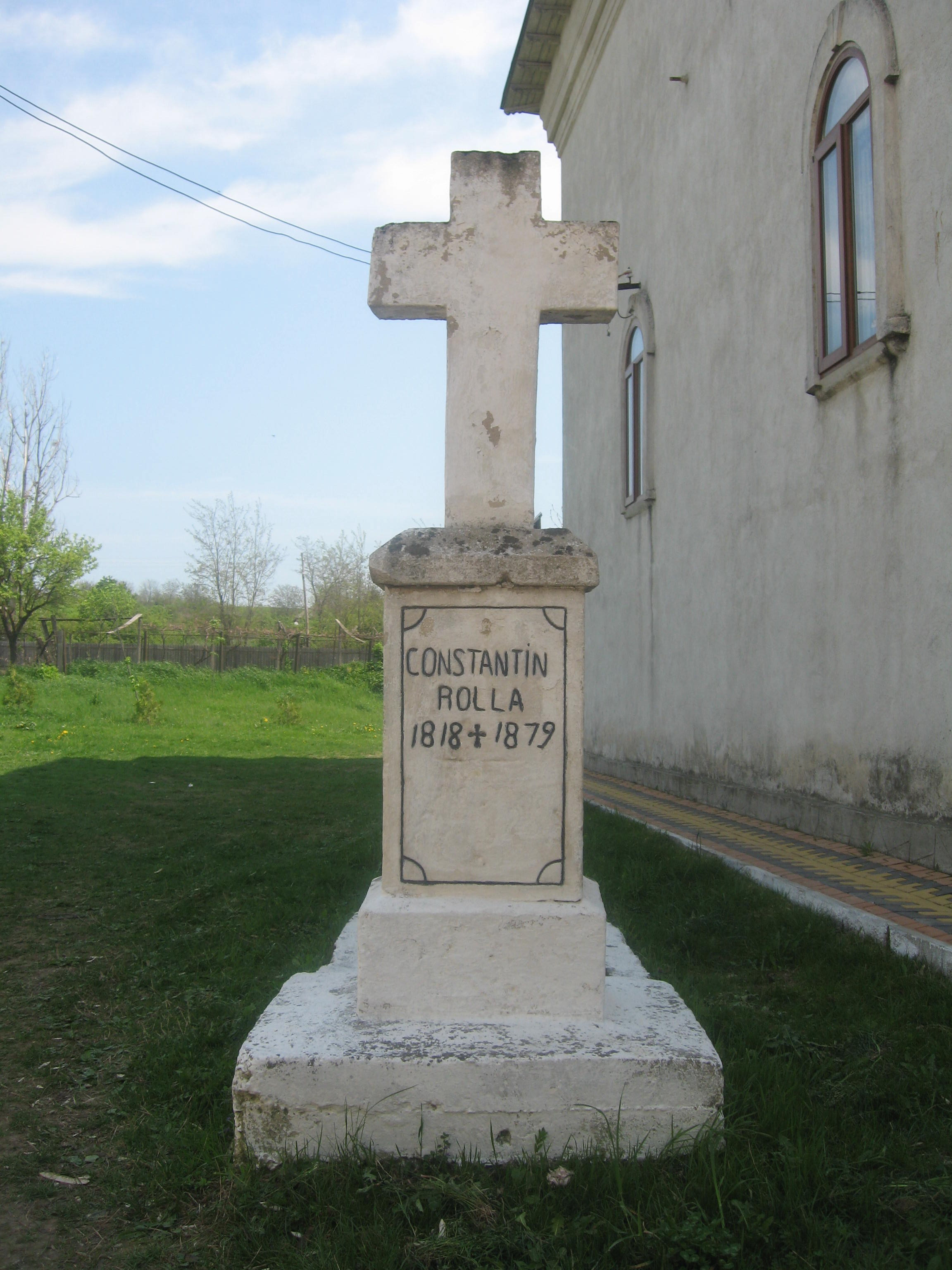 The tomb of Constantin Rolla (1818-1879), politician of Moldavia